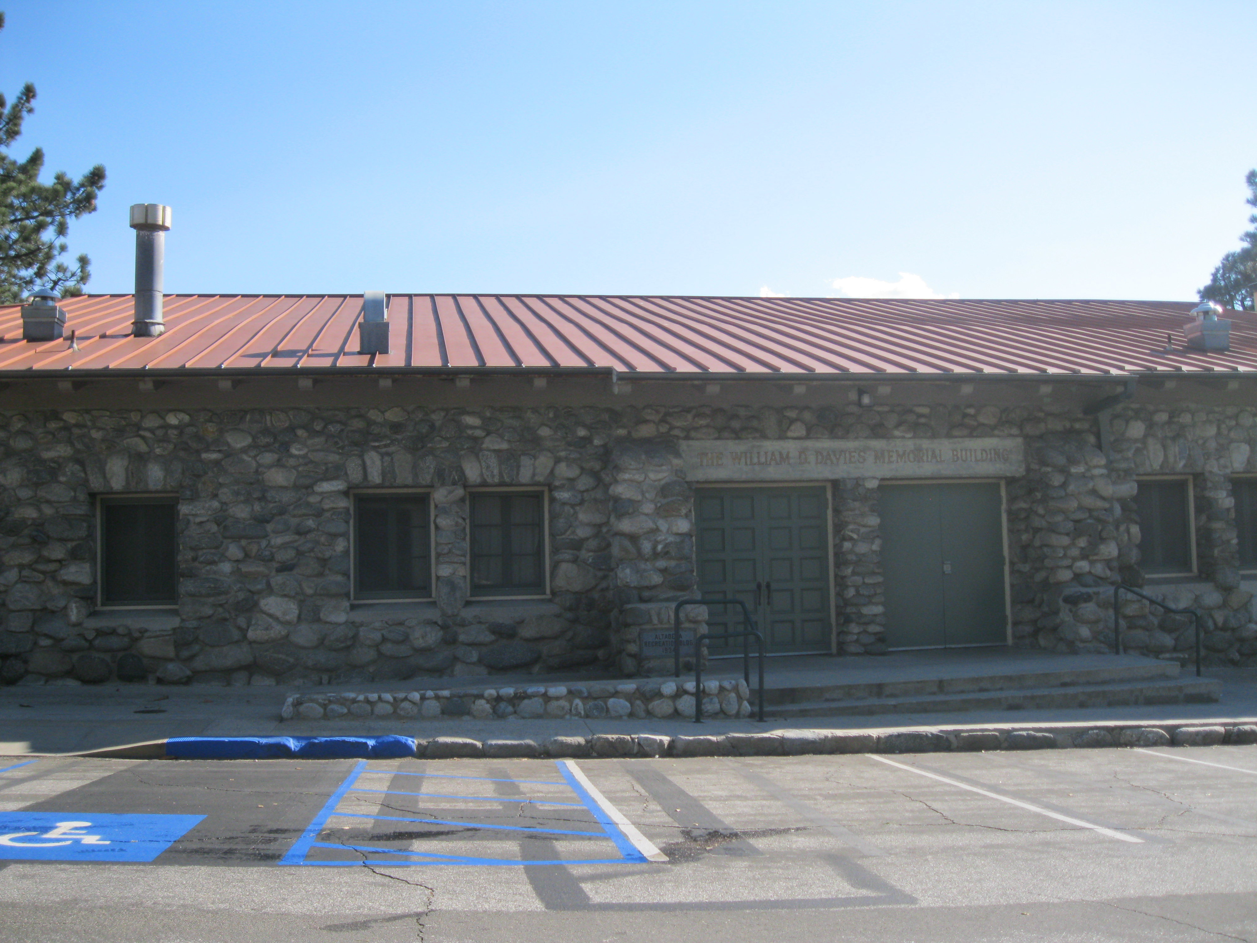 The William D. Davies Memorial Building, a fieldhouse at Gen. Charles S. Farnsworth County Park in Altadena, California. The park is listed on the National Register of Historic Places.